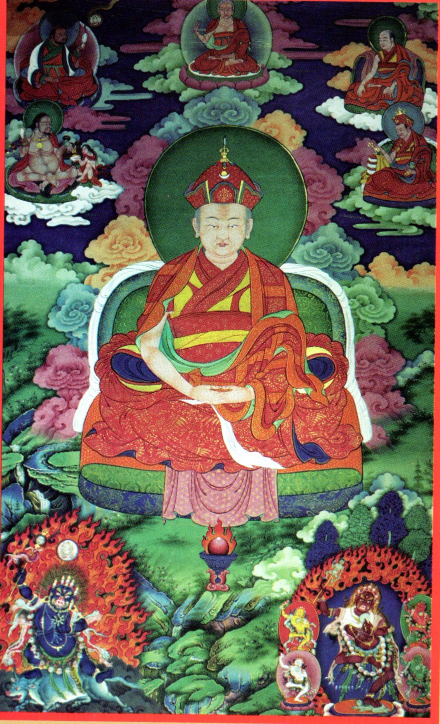 The First Gangteng, Pema Trinle b.1564 - d.1642